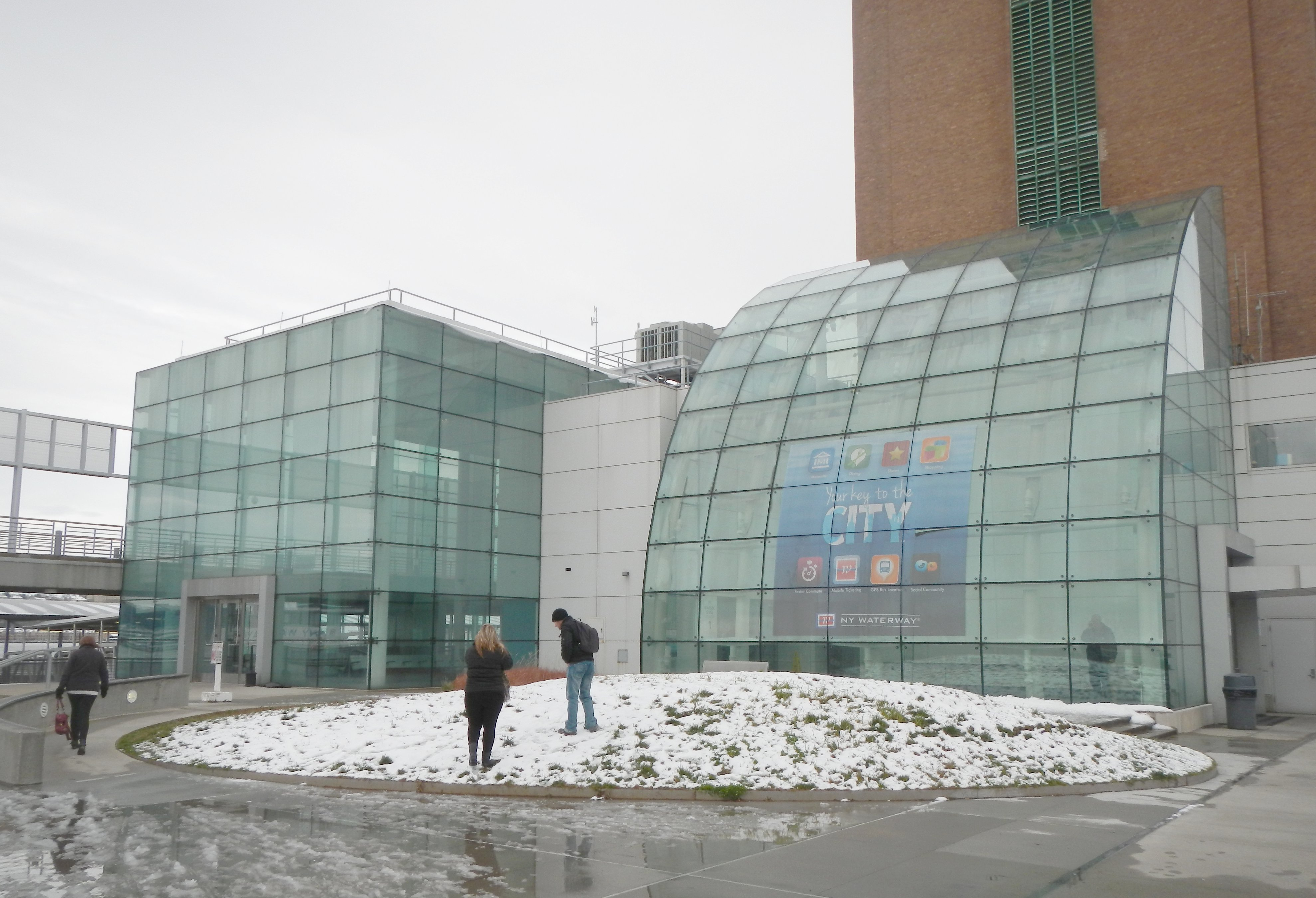 Looking north at ferry terminal, after a brief snowfalls a few days after Hurricane Sandy.